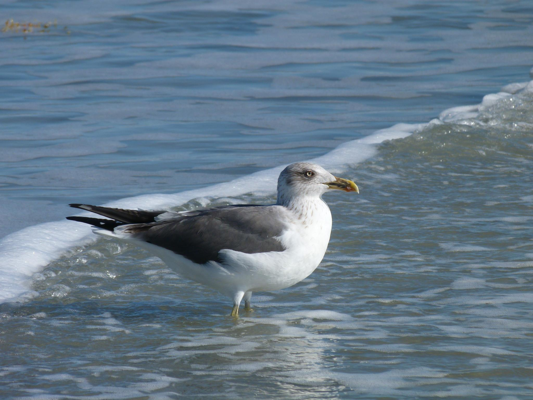 Lori Wilson Park - Cocoa Beach FL